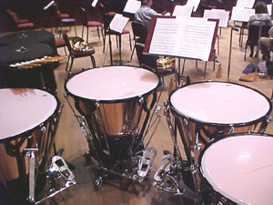 Timpani.